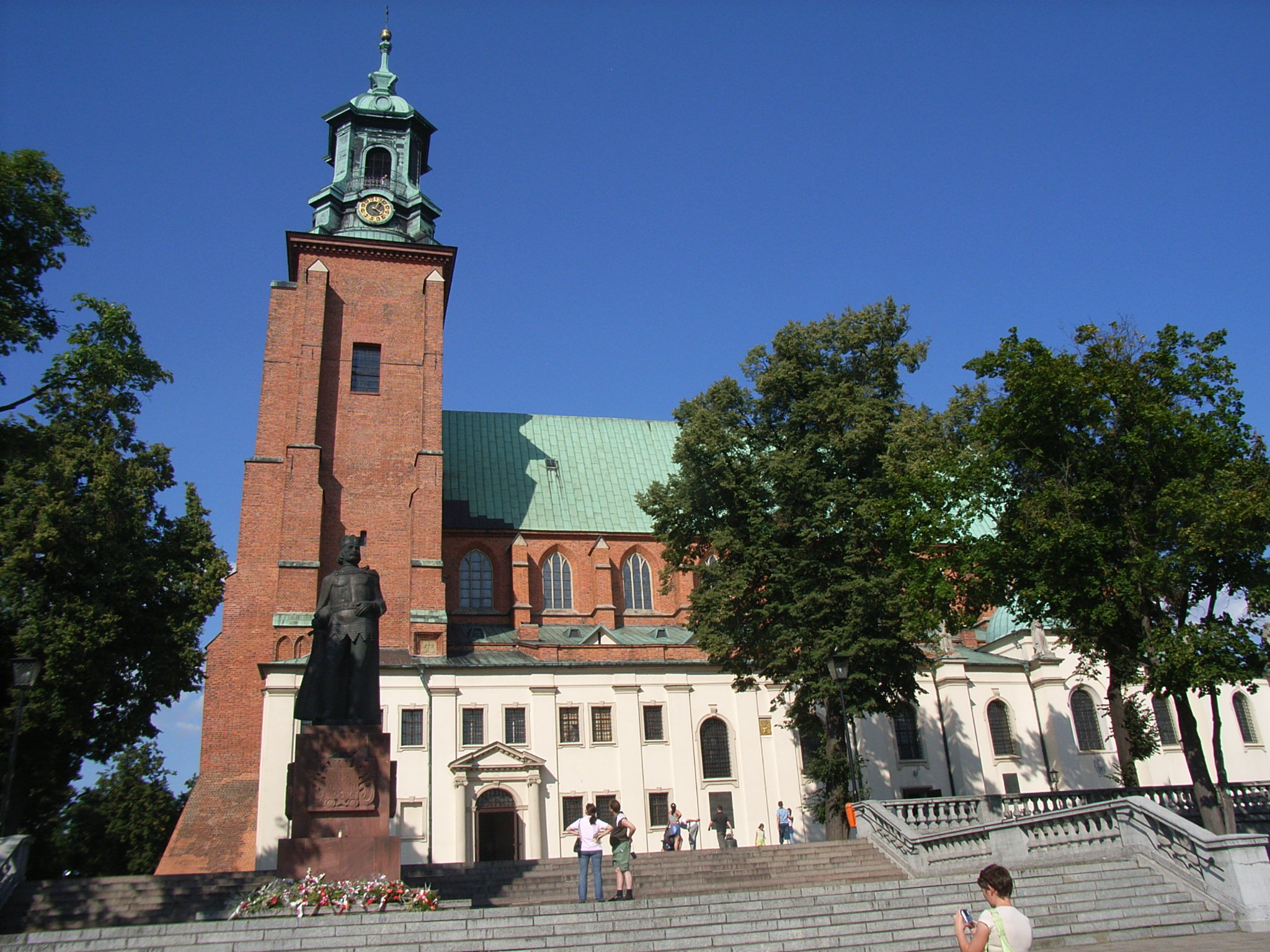 cathedral of Gniezno, Poland